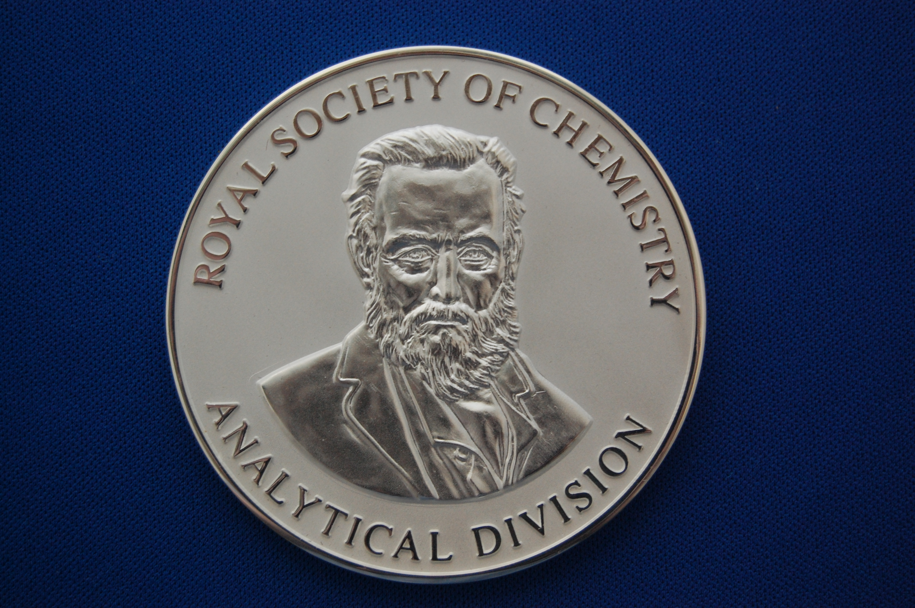 The Royal Society of Chemistry's Theophilus Redwood Award - 2014 - obverse